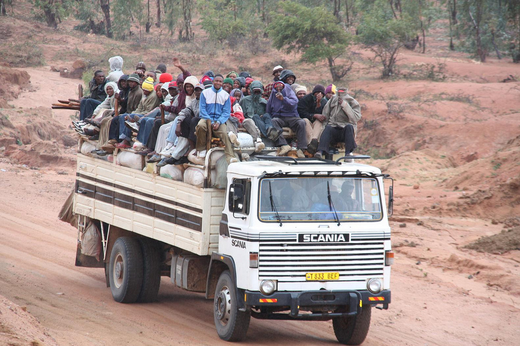 Travel between the towns Singida and Mkoani, Tanzania